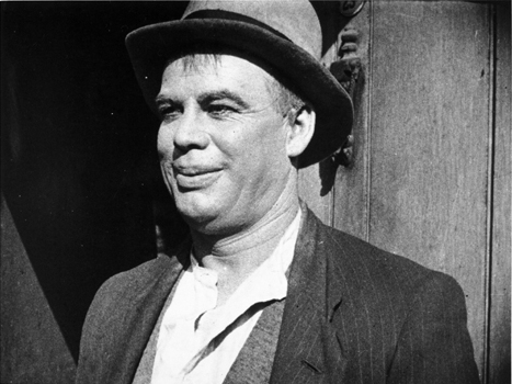 Arthur Tauchert, actor, in The Sentimental Bloke, a 1919 Australian silent-film Category:Images of Australian people